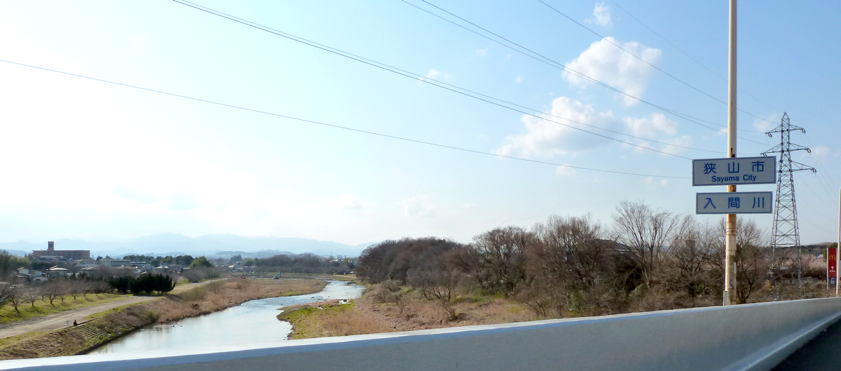 Iruma River.